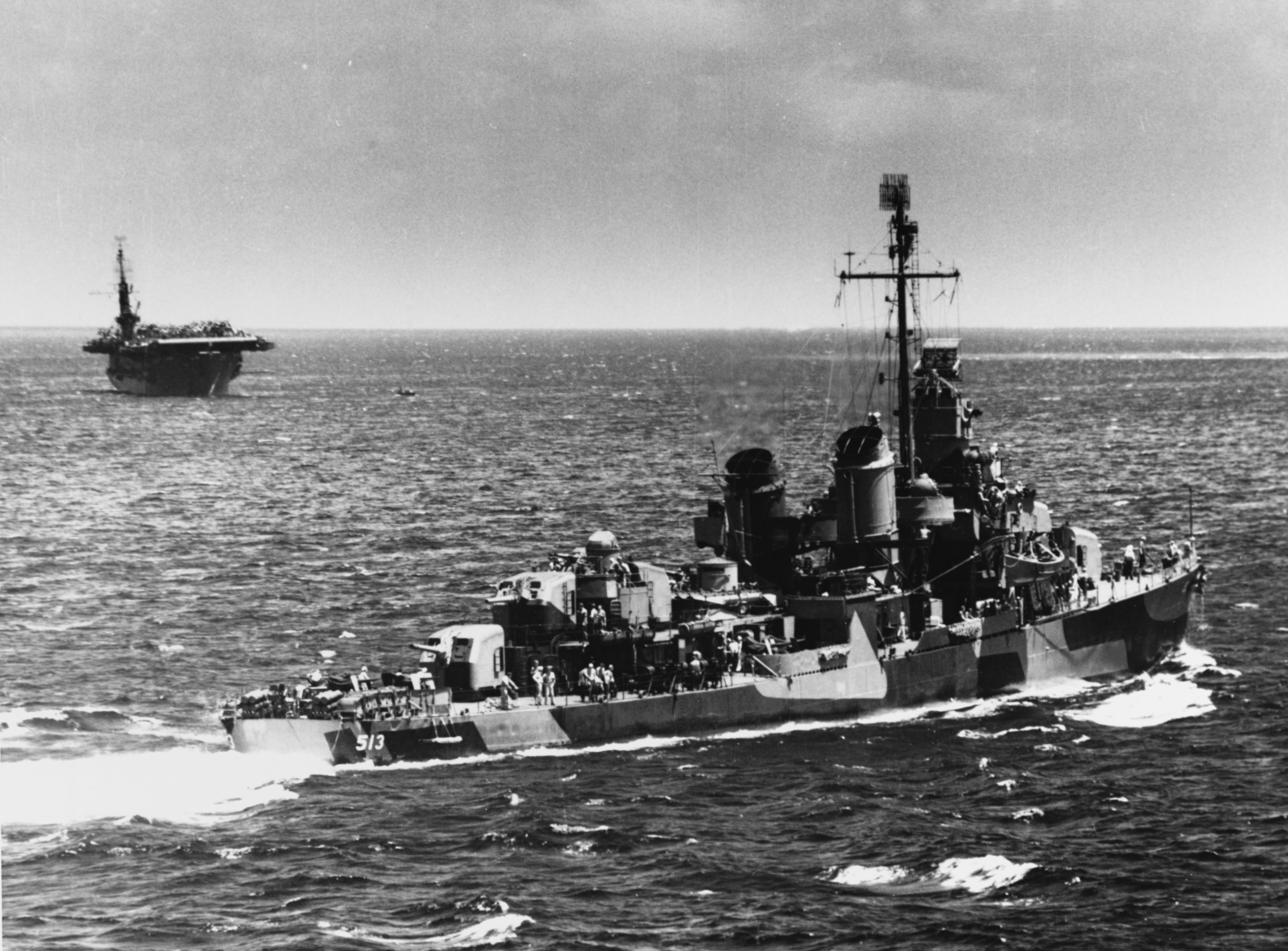 The U.S. Navy destroyer USS Terry (DD-513) departing Roi, en route to take part in the invasion of Saipan, 12 June 1944. An escort carrier is in the left background. Terry is painted in Camouflage Measure 31, Design 14D. The photo was taken from the battleship USS New Mexico (BB-40).